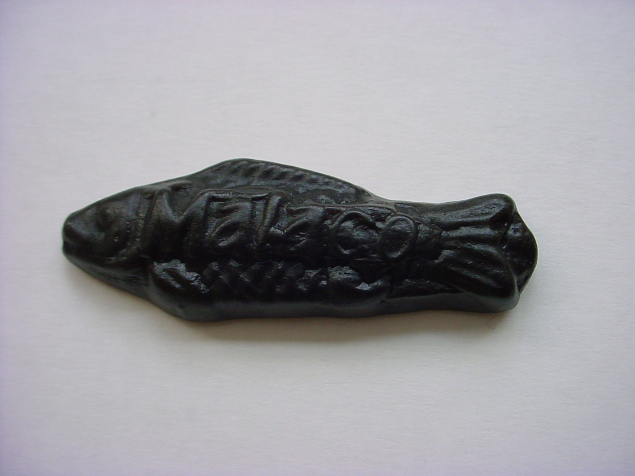 Black salmiak-flavored Swedish fish, photo taken by uploader.